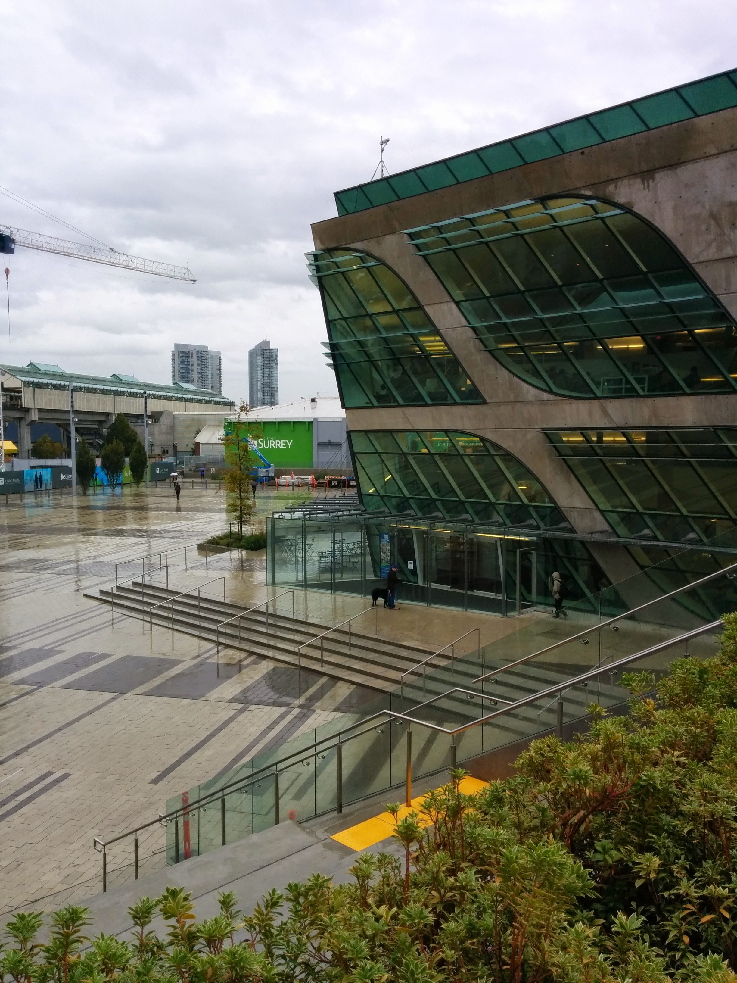 surrey center library